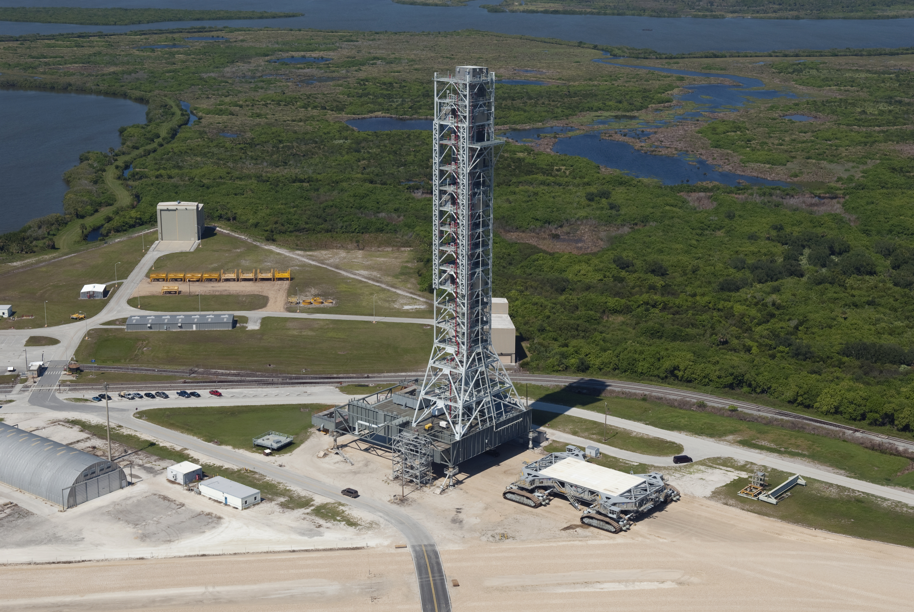 At NASA's Kennedy Space Center in Florida, this view of a crawler-transporter after moving NASA's new mobile launcher (ML) support structure from a construction site, north of the Vehicle Assembly Building (VAB), to the Mobile Launcher east park site is taken from the roof of the VAB. The base of the launcher is lighter than space shuttle mobile launcher platforms so the crawler-transporter can pick up the heavier load of the tower and a taller rocket. Once there, the ML can be outfitted with ground support equipment, such as umbilicals and access arms, for future rocket launches. It took about two years to construct the 355-foot-tall structure, which will support NASA's future human spaceflight program.